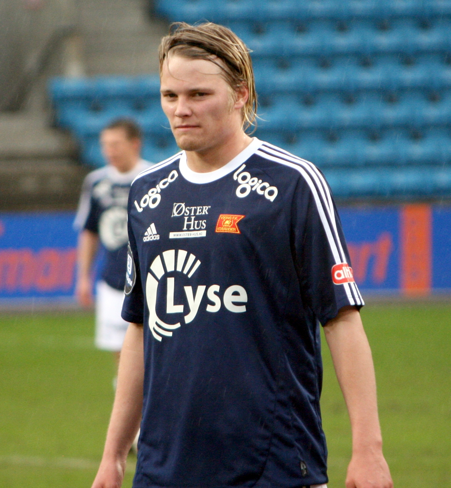 Footballer Birkir Bjarnason.